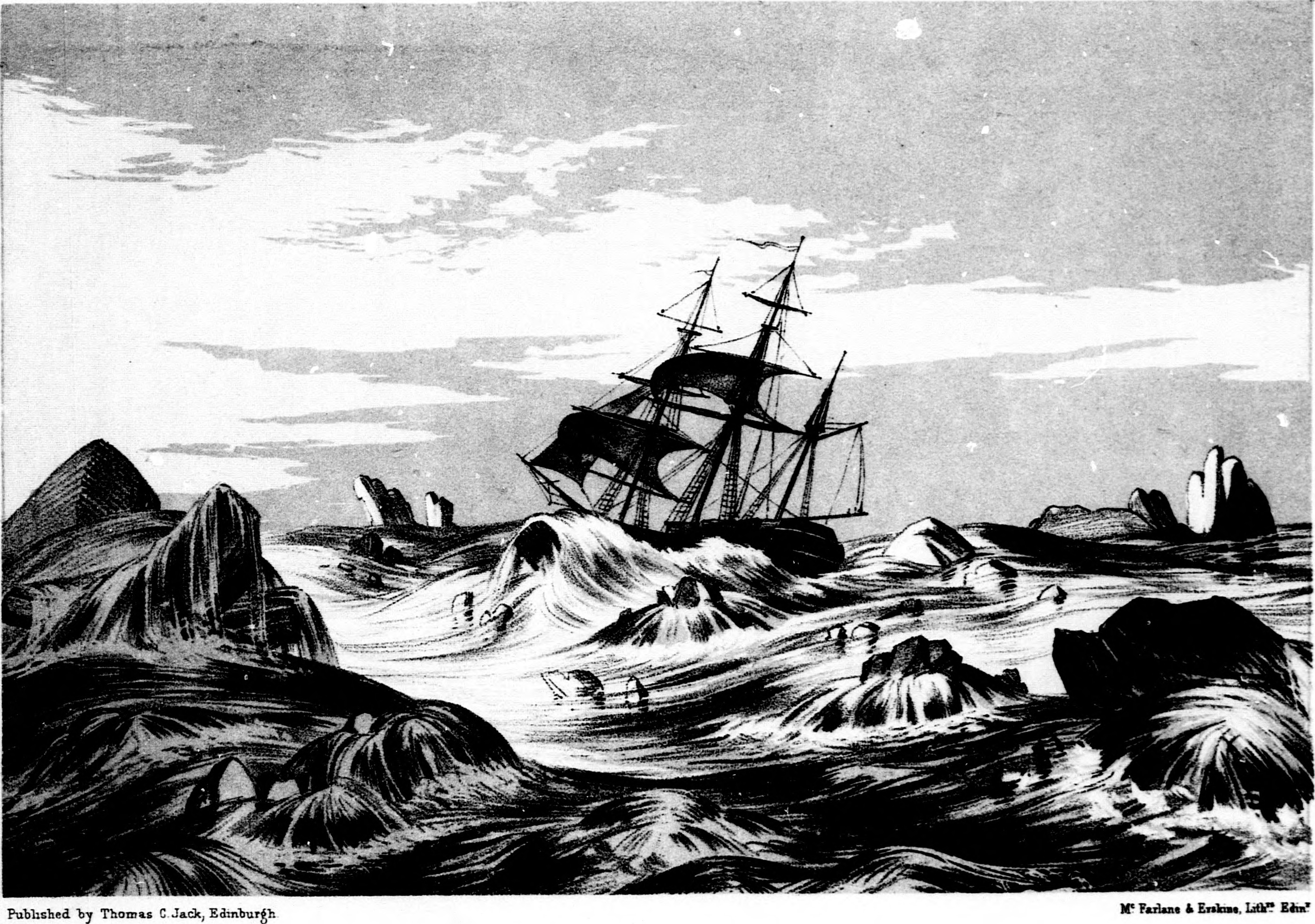 Title: Arctic expeditions from British and foreign shores (microform) : from the earliest to the expedition of 1875 Year: 1875 (1870s) Authors: Smith, D. Murray (David Murray) Subjects: Scientific expeditions; Expéditions scientifiques Publisher: Edinburgh : T. C. Jack Text Appearing Before Image: ' Text Appearing After Image: H.M. ship "Trent" passing through dangerous ice-floes. June 7th 1818.